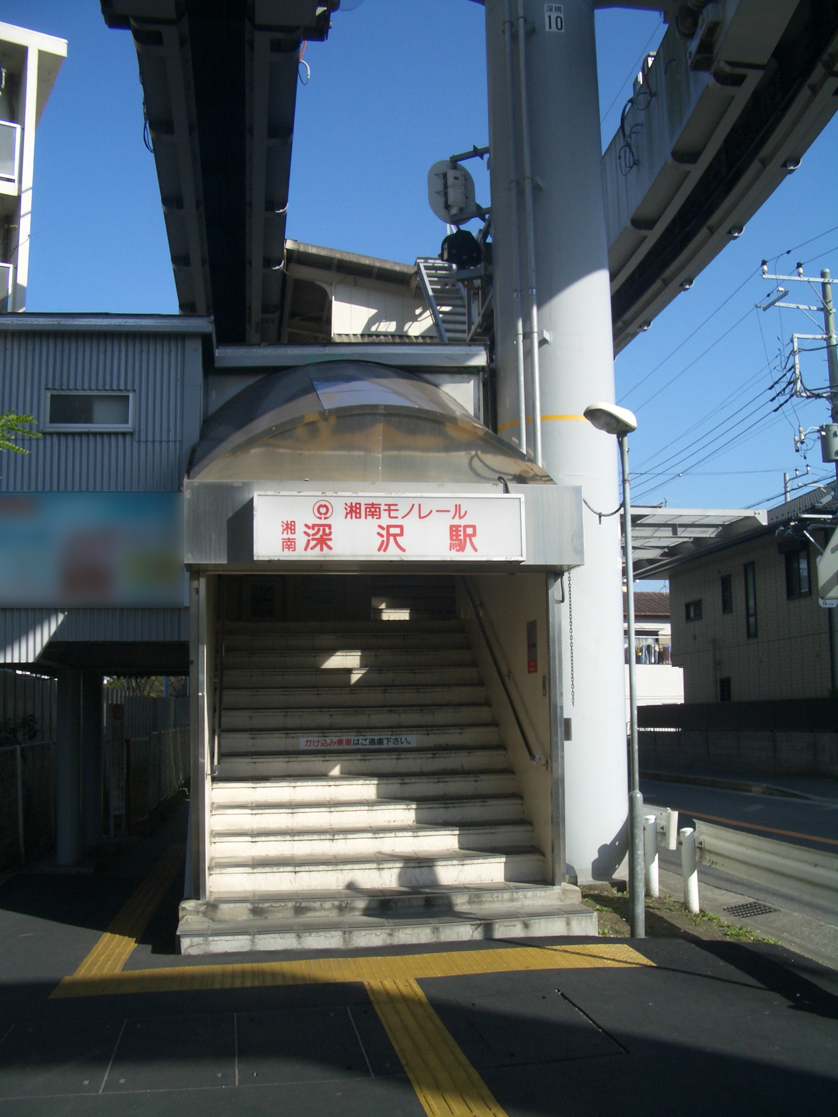 The entrance to Shōnan-Fukasawa Station on the Shōnan Monorail Line in Kamakura city, Kanagawa prefecture, Japan